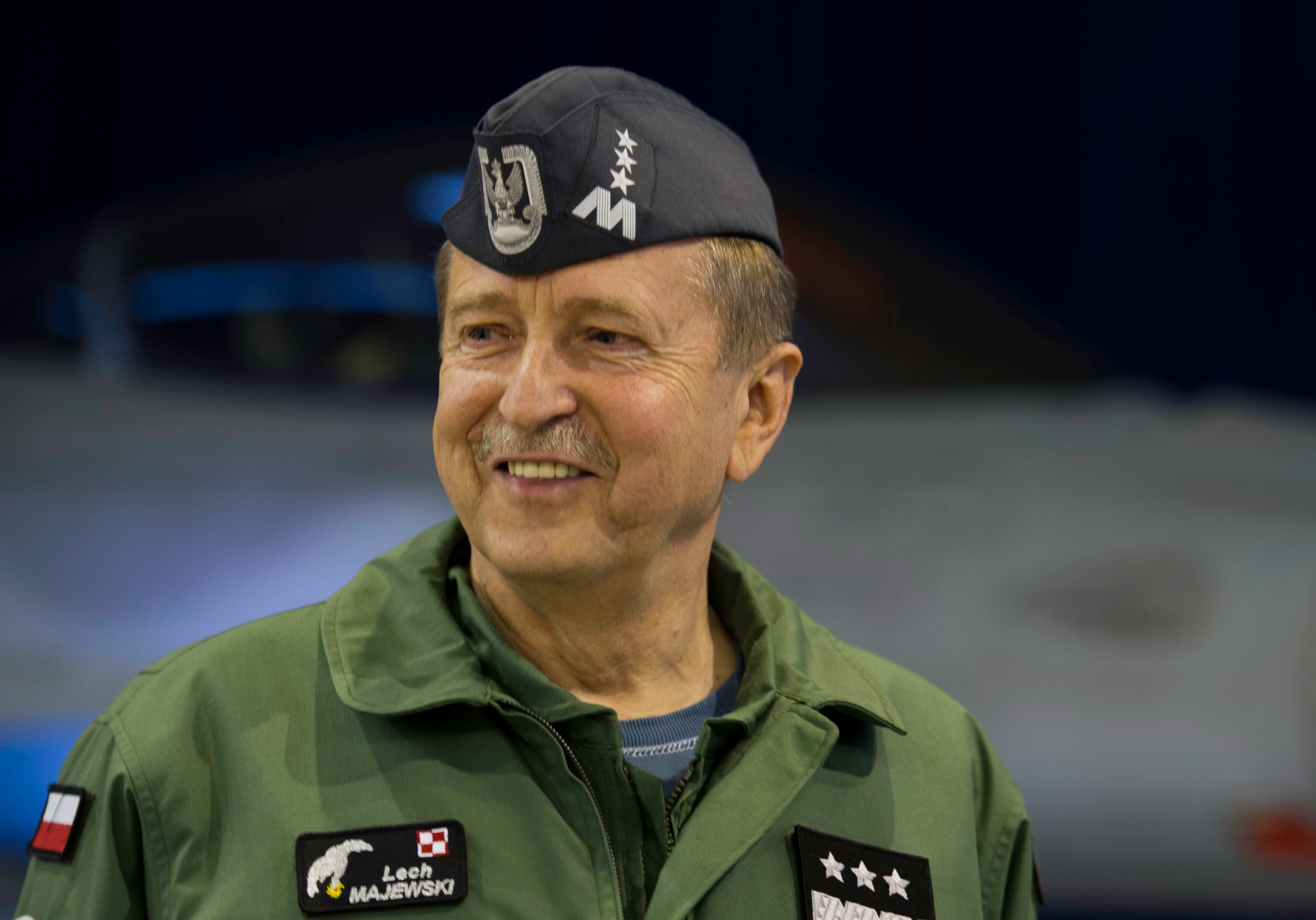 LtGen. Pilot Lech Majewski - Commander of the Polish Air Force